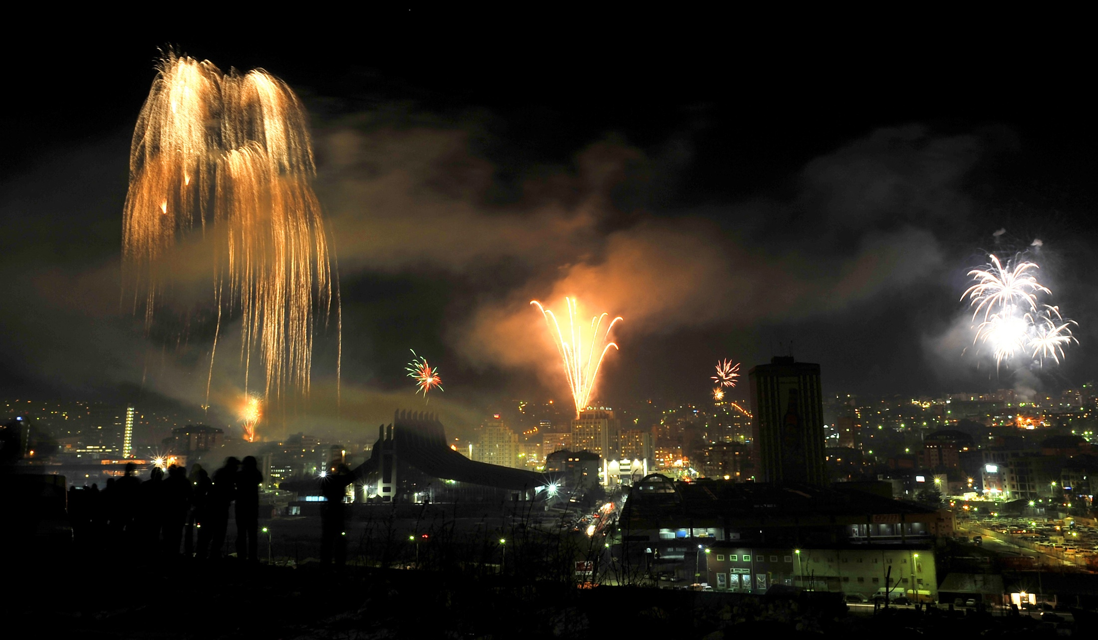 Independence celebration in Pristina, Kosovo, Europe